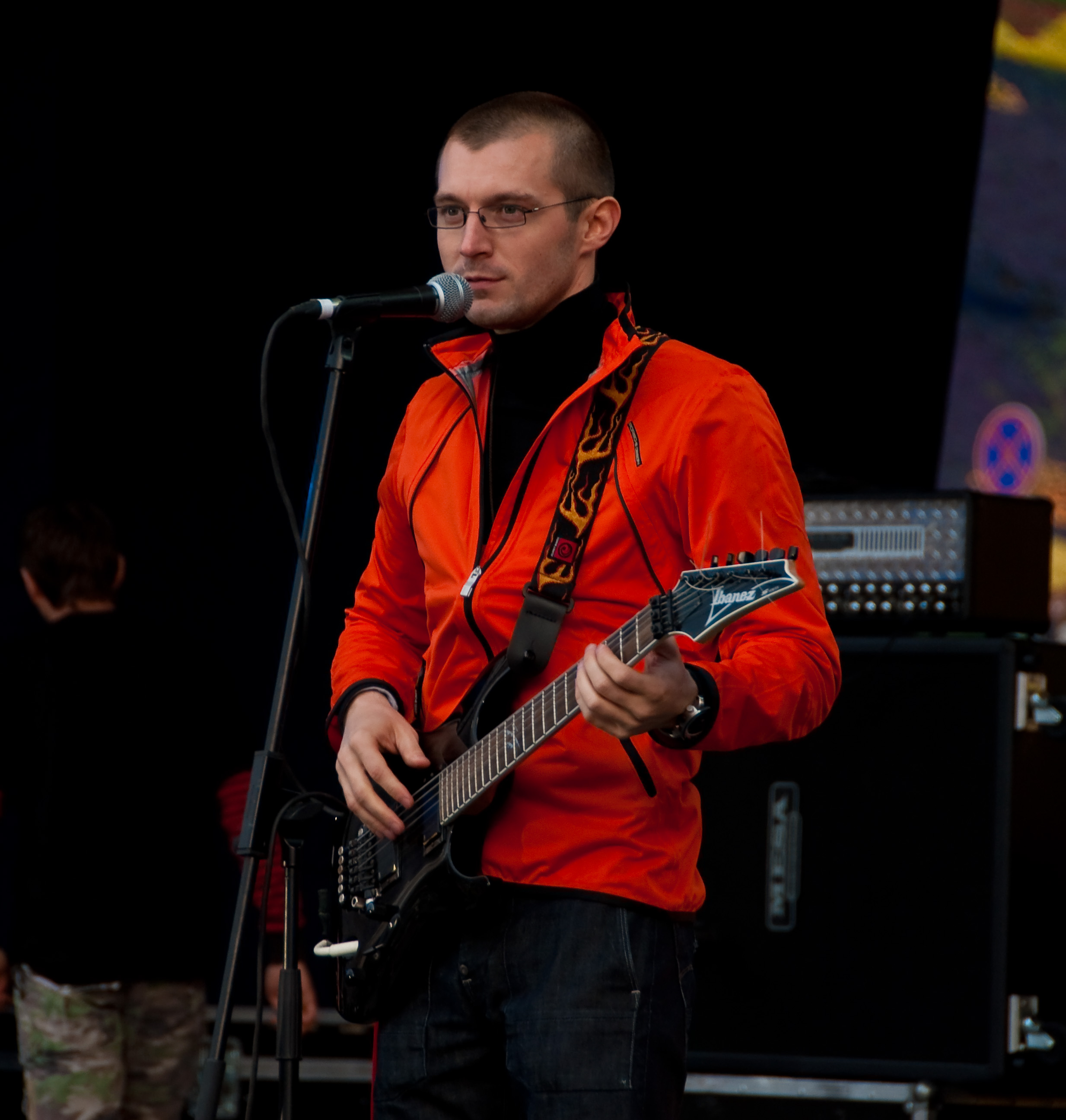 Sergiy Grygorovych singing on Stalker Fest 2009